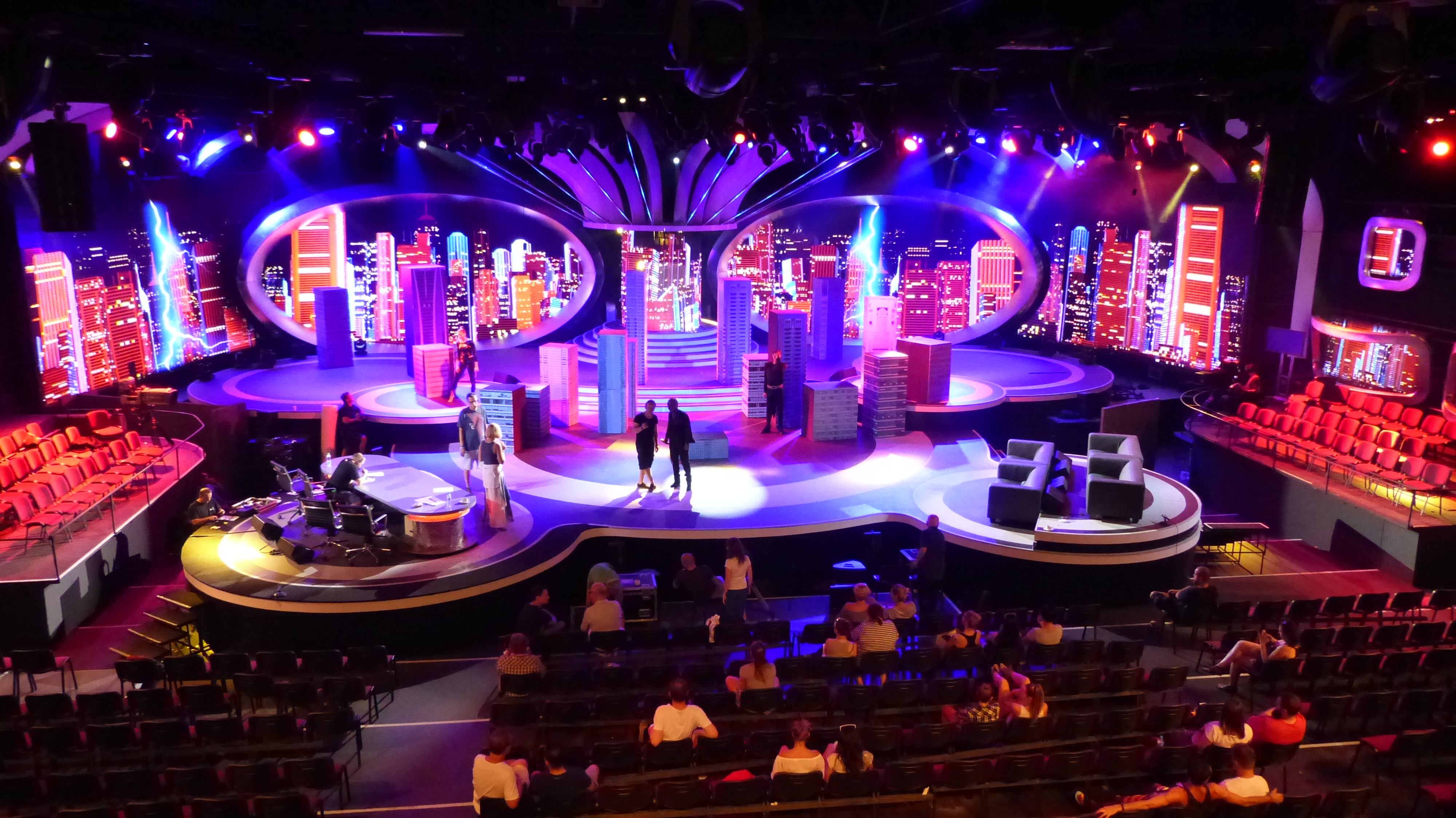 Endemol Shine Polska crew on the set of local "Your Face Sounds Familiar" shooting